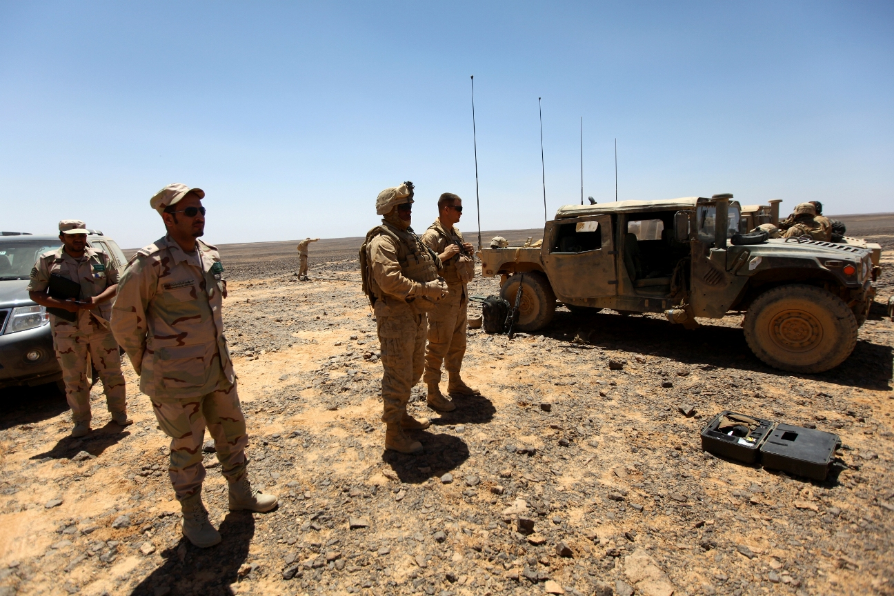 Members of the Royal Saudi Air Force observe indirect fire from Jordanian artillery alongside forward observer Marines from India Battery, Battalion Landing Team 1st Battalion, 2nd Marine Regiment, 24th Marine Expeditionary Unit as part of Exercise Eager Lion 12 here, May 17, 2012. Throughout Eager Lion 12 the 24th MEU is participating in a variety of training exercises with partnered nations to increase interoperability and learn about other countries' militaries. Eager Lion 12 is a recurring exercise designed to strengthen military-to-military relationships through a joint, whole-of-government, multinational approach to future complex national security challenges. The 24th MEU, partnered with the Iwo Jima Amphibious Ready Group, is currently deployed to the Central Command area of operations as a theater-reserve and crisis-response force.